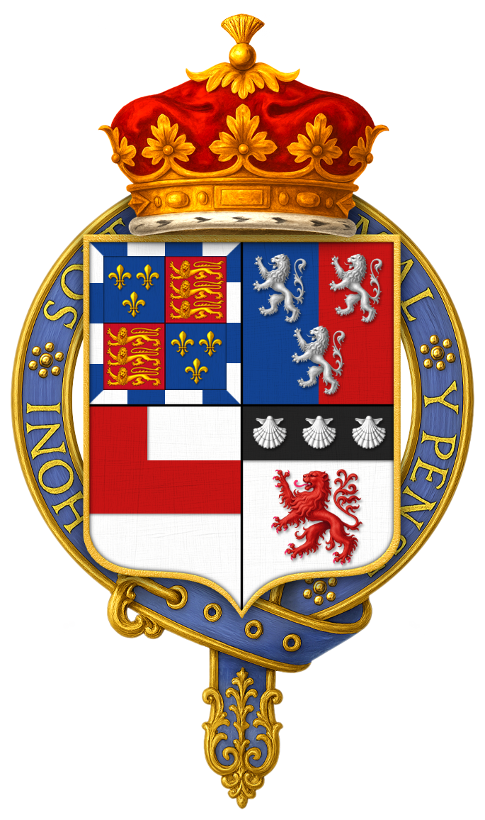 Coat of arms of Henry Somerset, 2nd Duke of Beaufort, KG